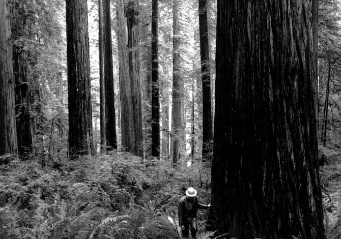 Redwood (Sequoia semevirens) trees and lush growth understory in the Yurok Research Natural Area within the Template:W"Redwood Experimental Forest, c. 1976